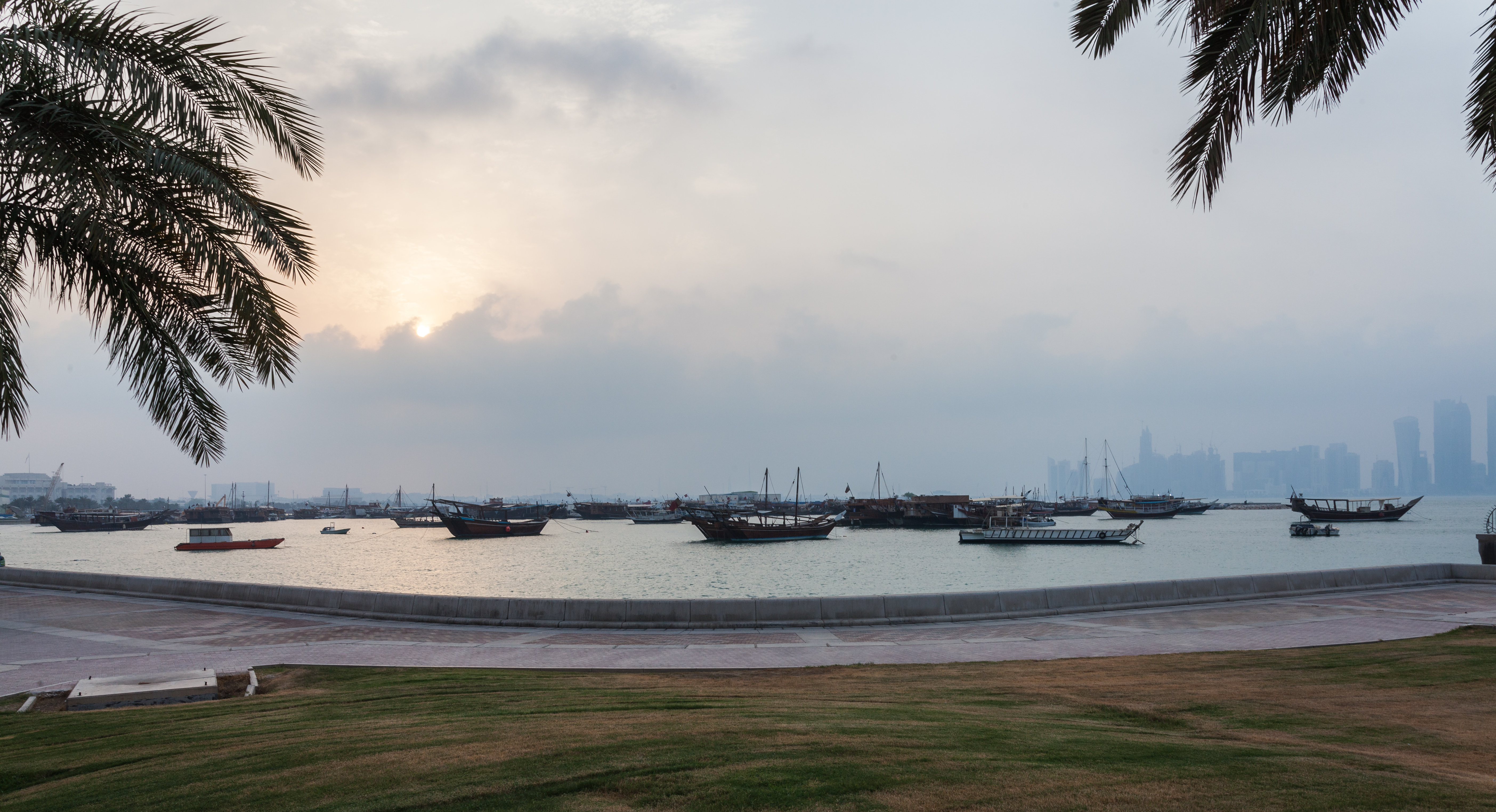 Doha Bay, Qatar